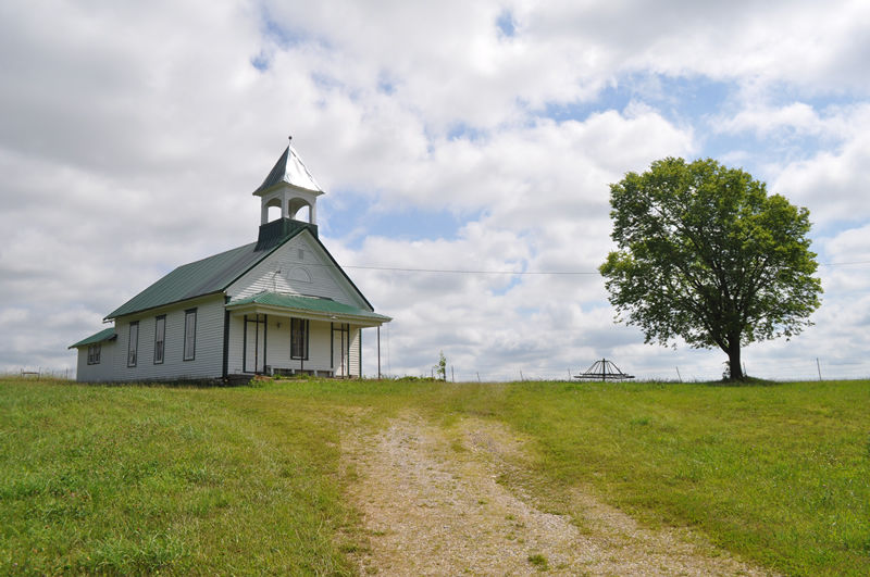 Acorn schoolhouse in Franklin County, Kansas on John Brown Highway.